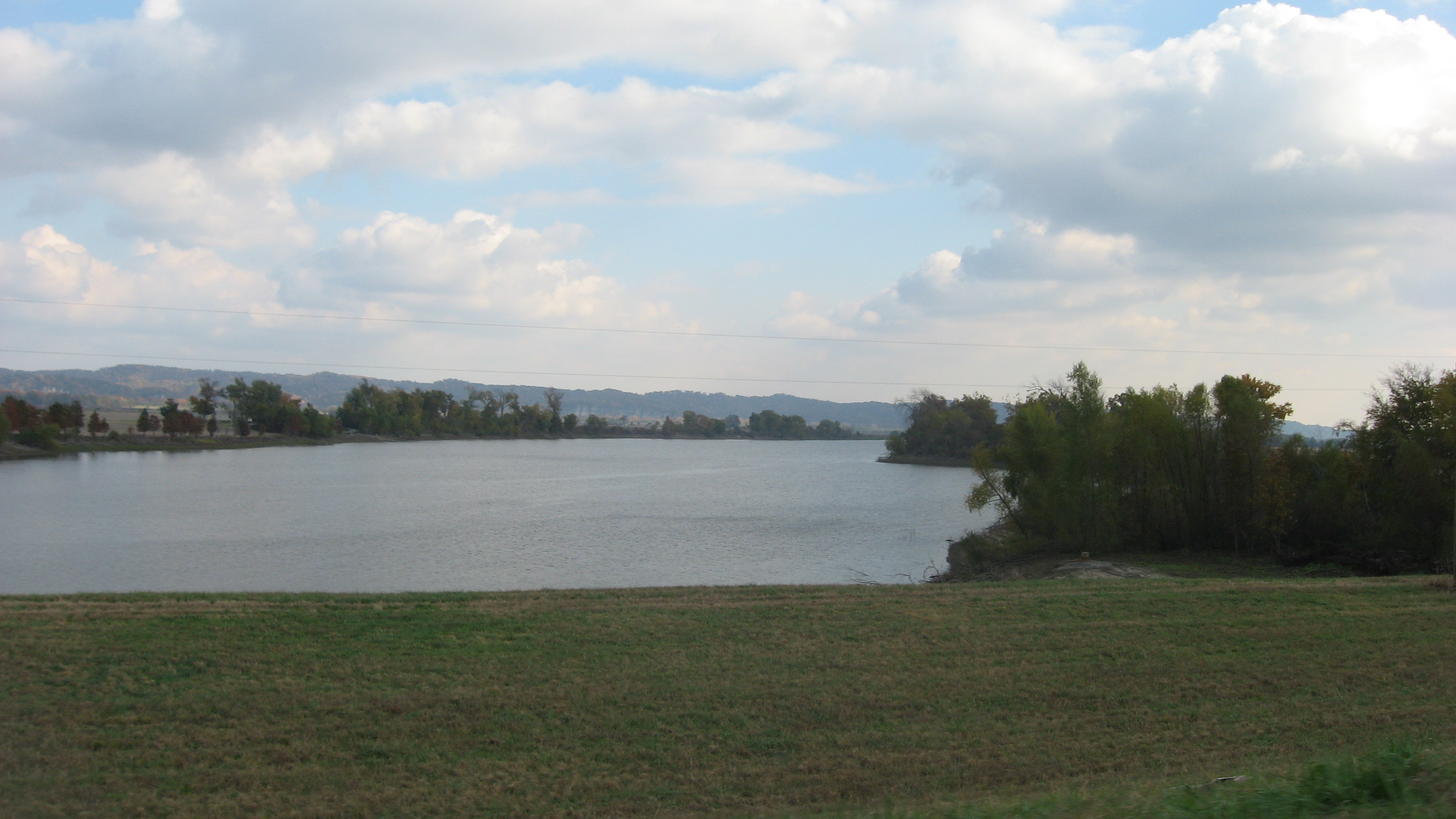 Looking southeastward over the northern end of Grand Tower Chute, the oxbow lake that forms the perimeter of Grand Tower Island. The lake marks the boundary between Jackson County, Illinois (left) and Perry County, Missouri (right), in the United States.